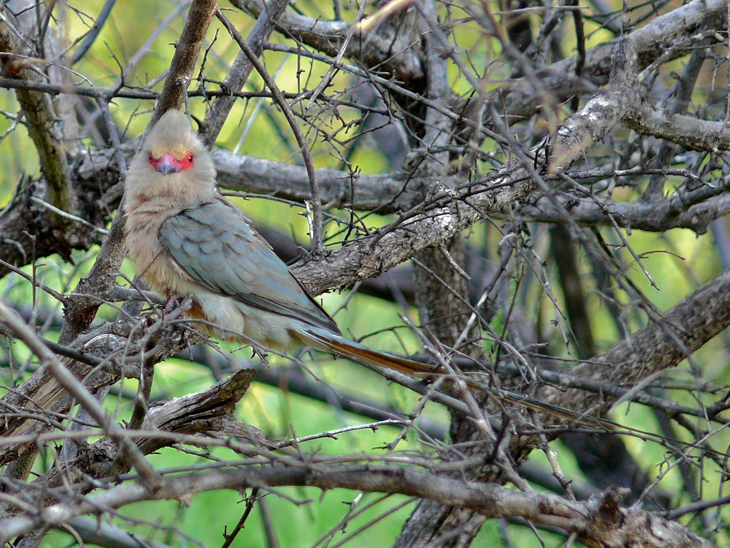 S59 Mahonie Loop near Punda Maria, Kruger NP, SOUTH AFRICA